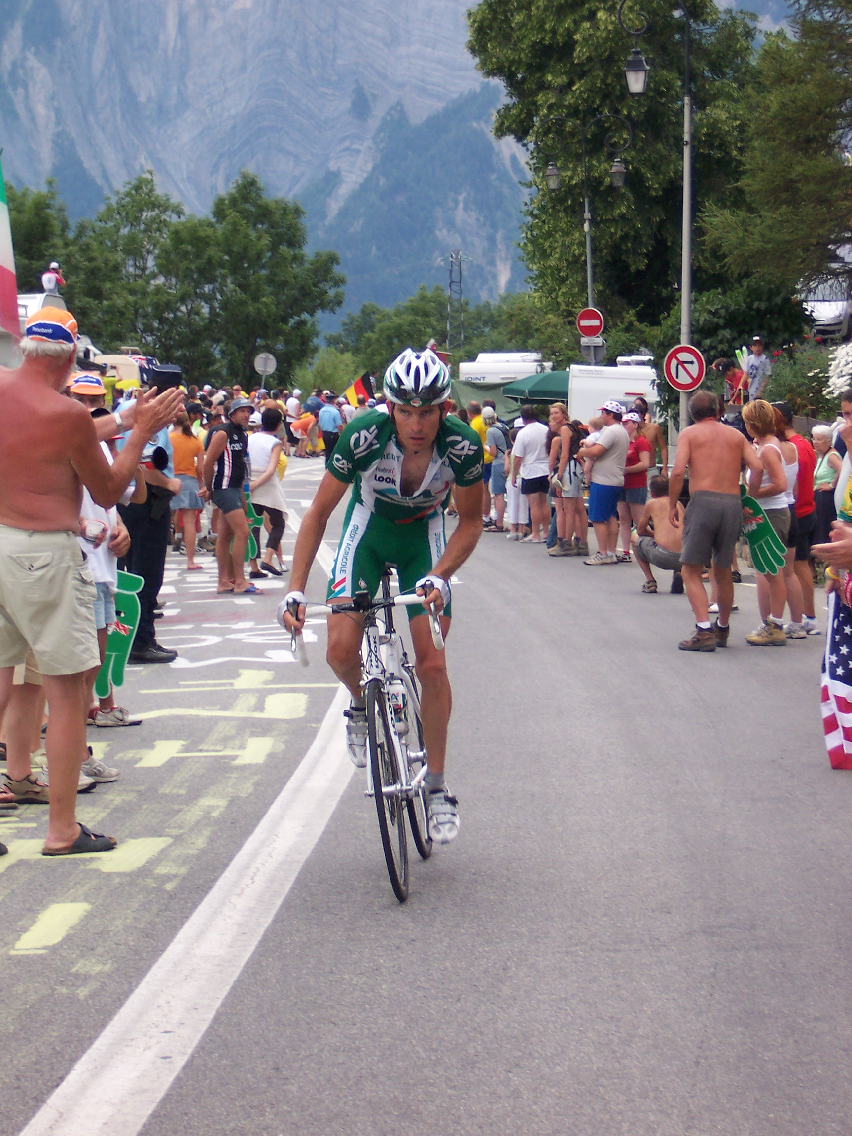 Patrice Halgand in the Tour de France 2003